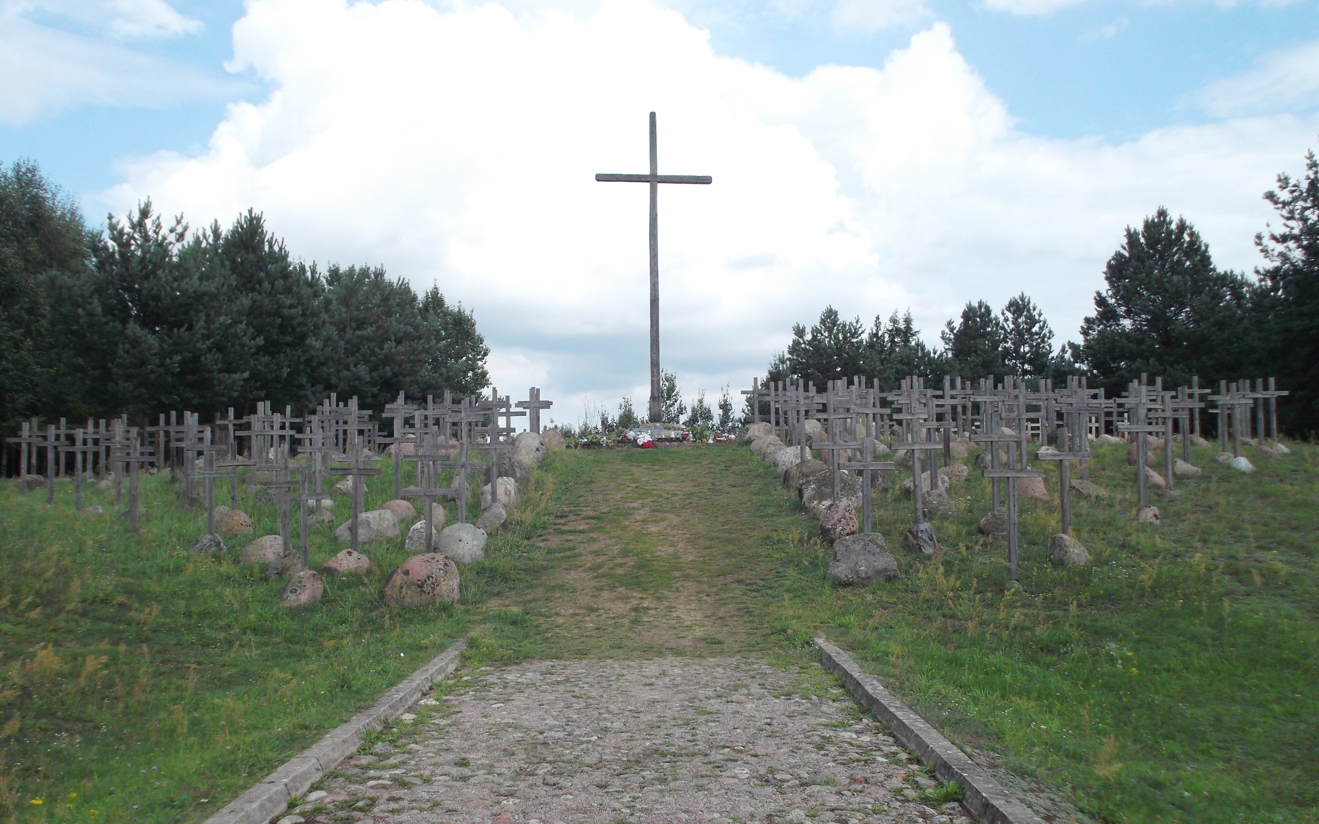 Augustów Roundup Memorial in Giby (Poland).